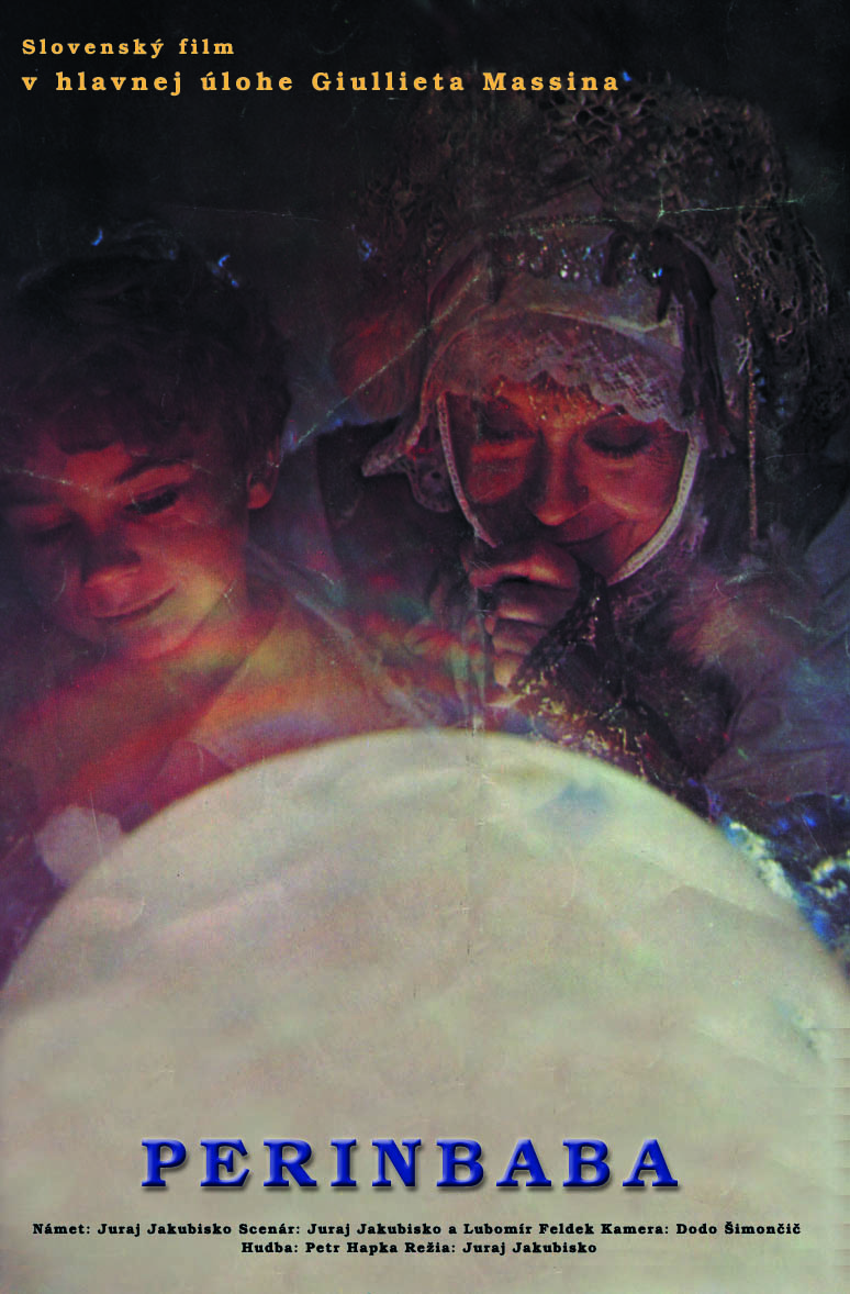 Official poster for the movie Perinbaba (The Feather Fairy)